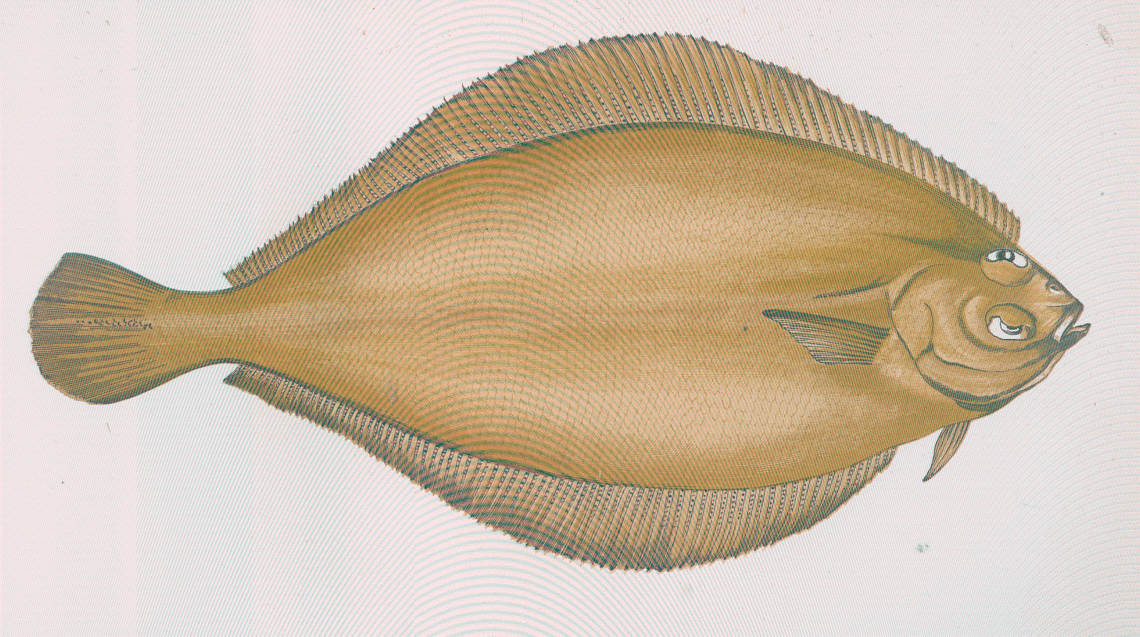 Pole Craigfluke Pleuronectes cynoglossus Pleuronecte pole Platessa pole Subject: Pleuronectidae Tag: Fish